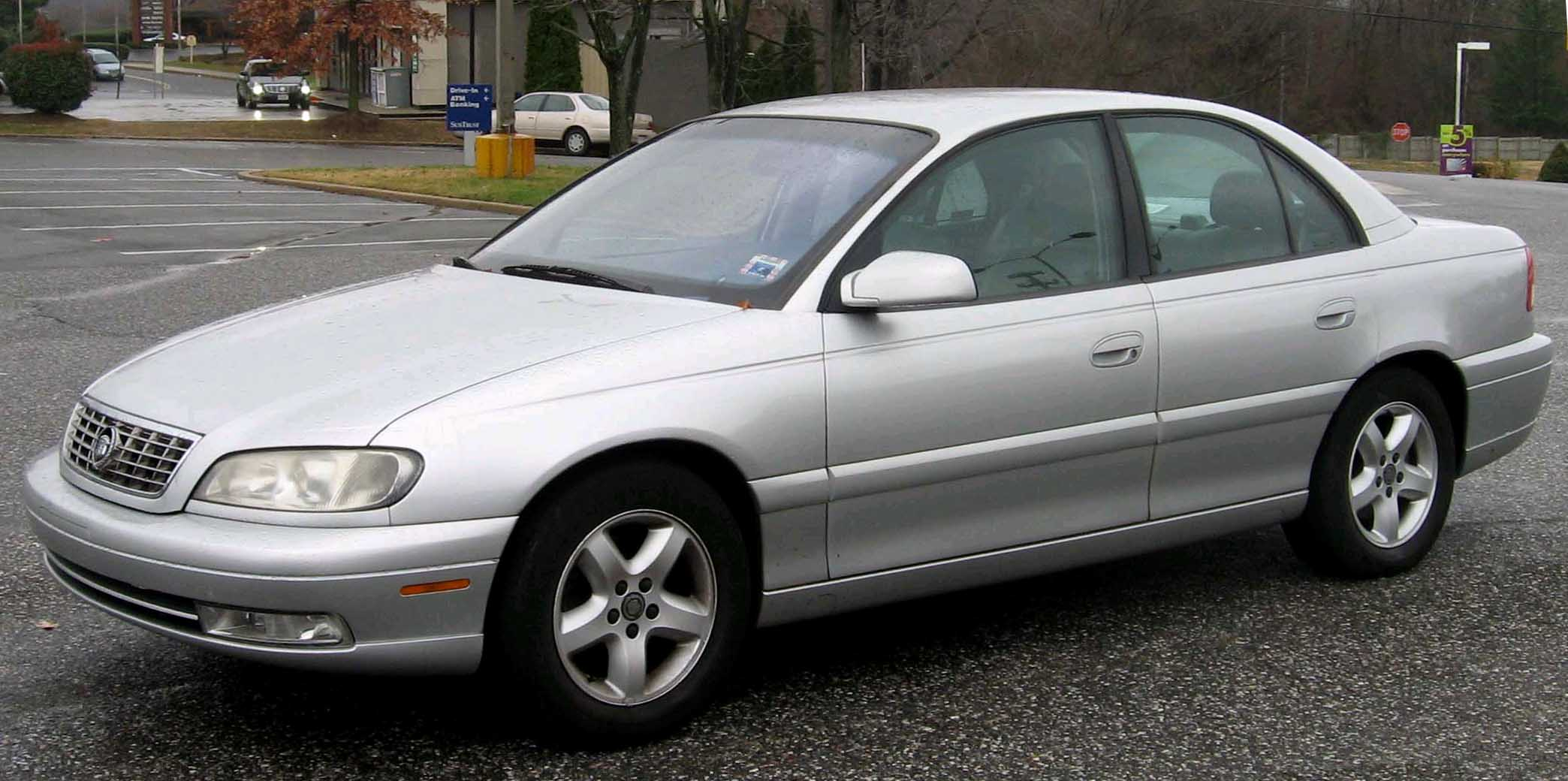 2000-2001 Cadillac Catera photographed in Fort Washington, Maryland, USA.